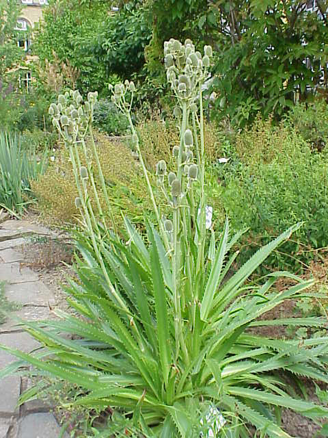 'Name': Eryngium yuccifolium, 'Family': Umbelliferae, Image no. 5